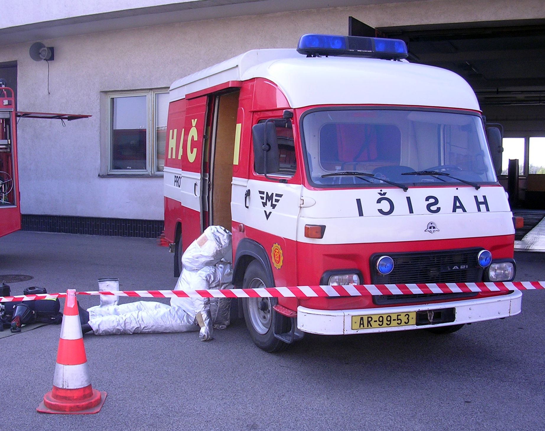 Třebonice, Prague, the Czech Republic. Avia A21 at open doors day 2009 in Zličín metro depot, metro firefighters presentation. Avia fire engines with "HASIČI" in mirror writing.